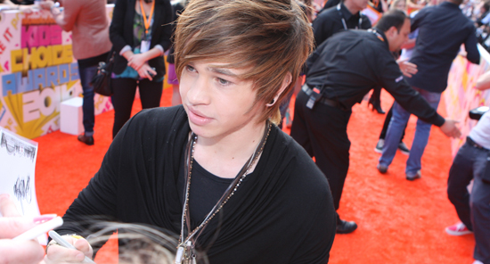 Reece Mastin at the Nickelodeon Choice Awards 2011. Sydney, Australia.